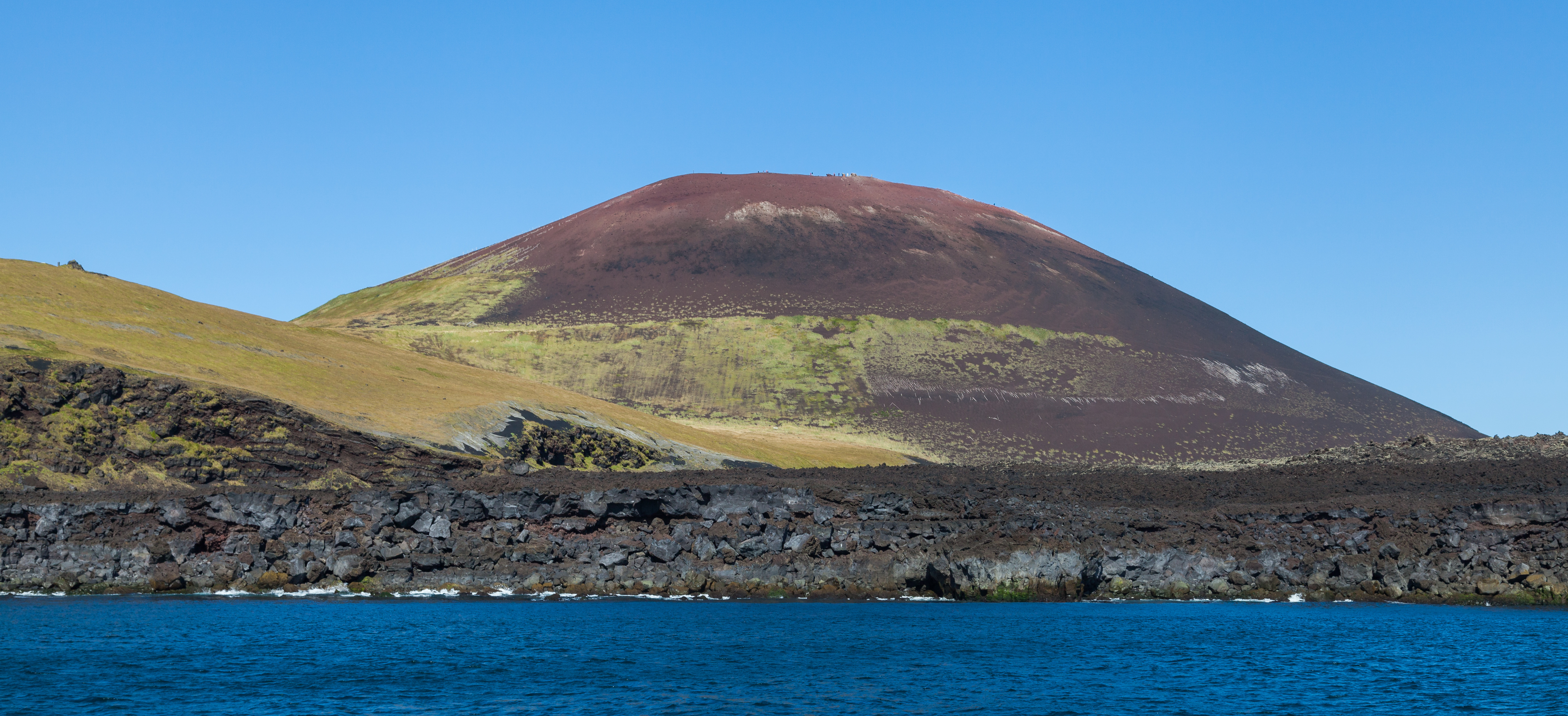 Eldfell, Heimaey, Westman Islands, Suðurland, Iceland